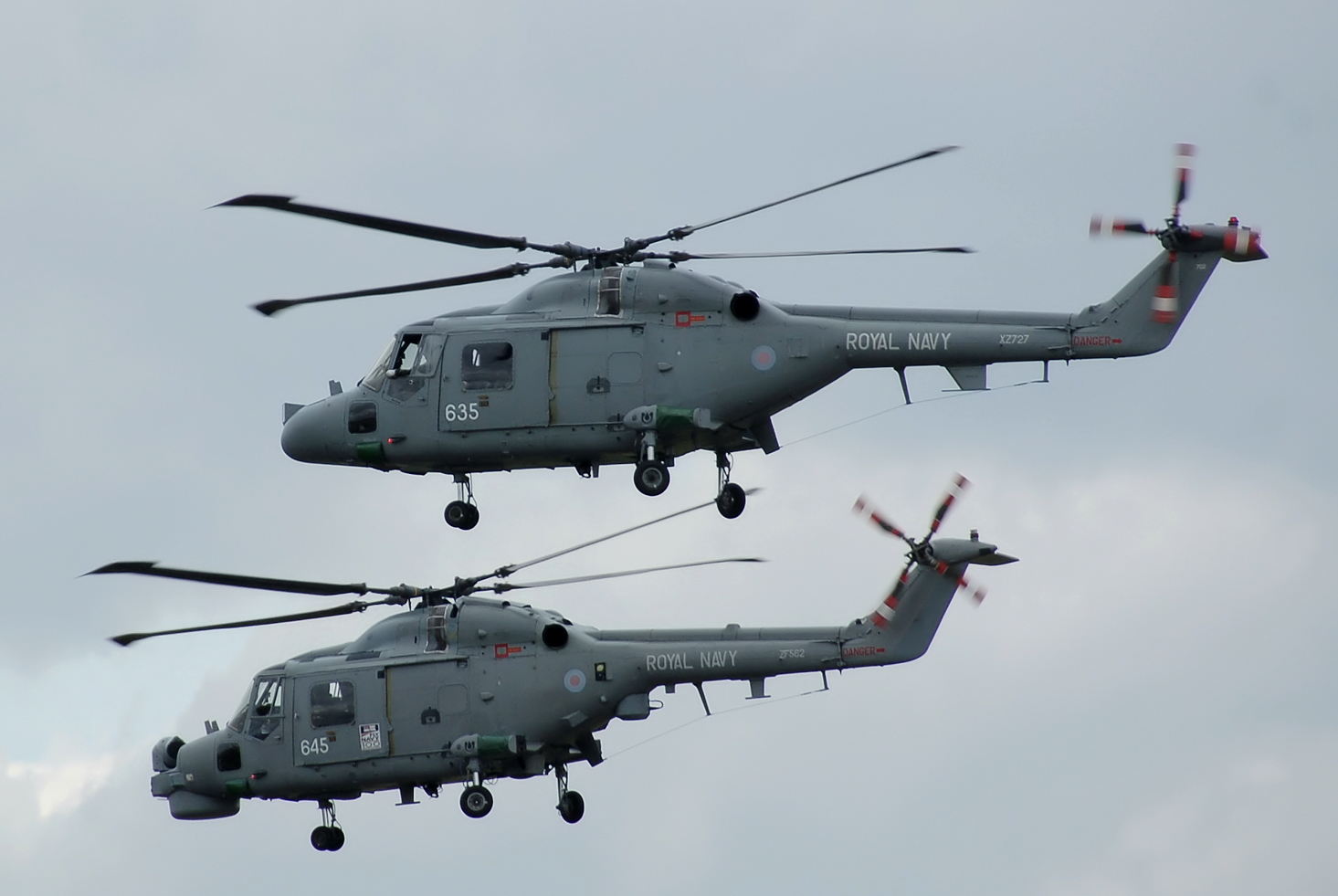 The two Westland Lynxes of the 2009 Black Cats (the Royal Navy helicopter display team) departing from the 2009 Royal International Air Tattoo, Fairford, Gloucestershire, England. ZF562/645 is Lynx model HMA8DPS, XZ727/635 is Lynx model HAS3S.